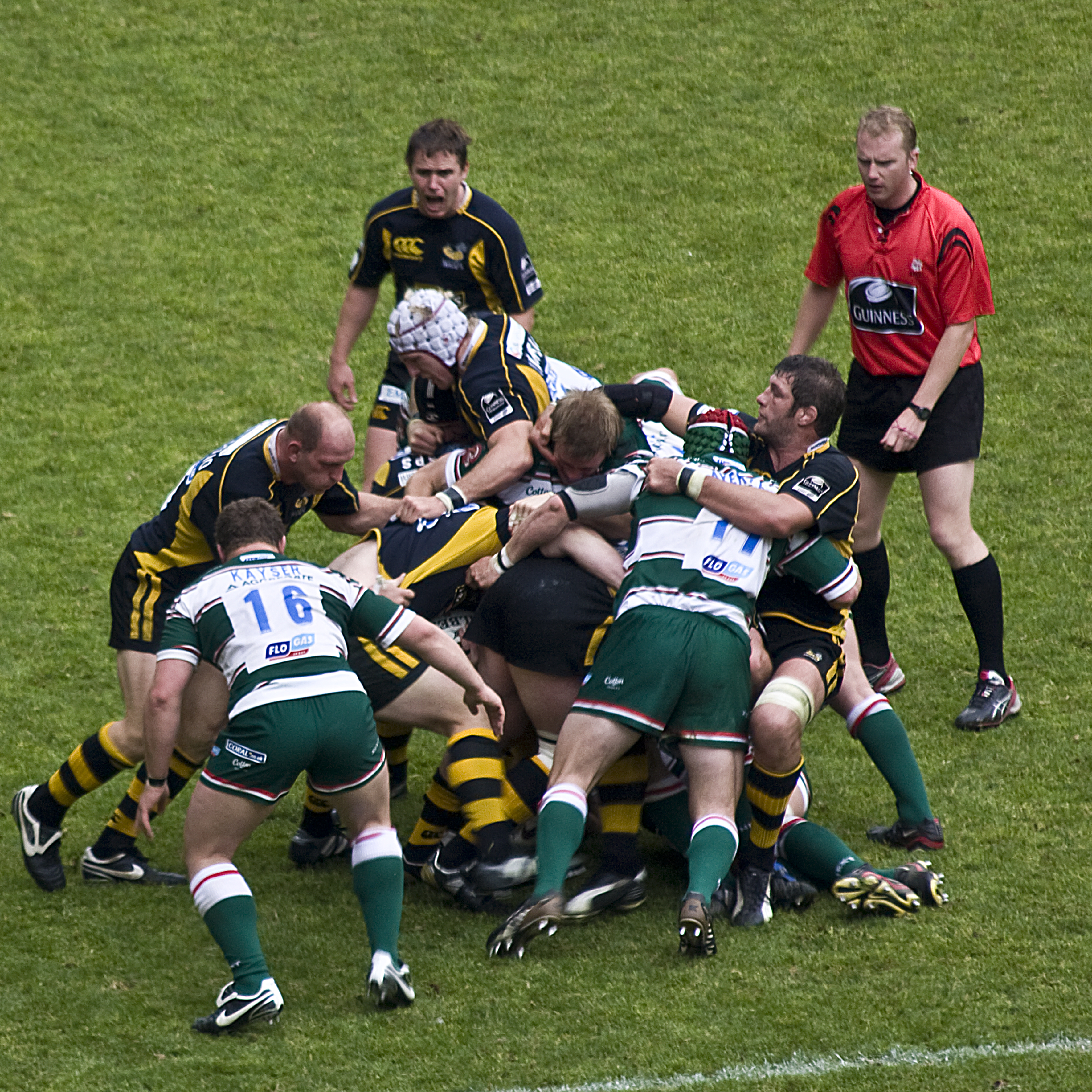 Guinness Premiership final between London Wasps and Leicester Tigers in 2008. Wasps won 26-16.